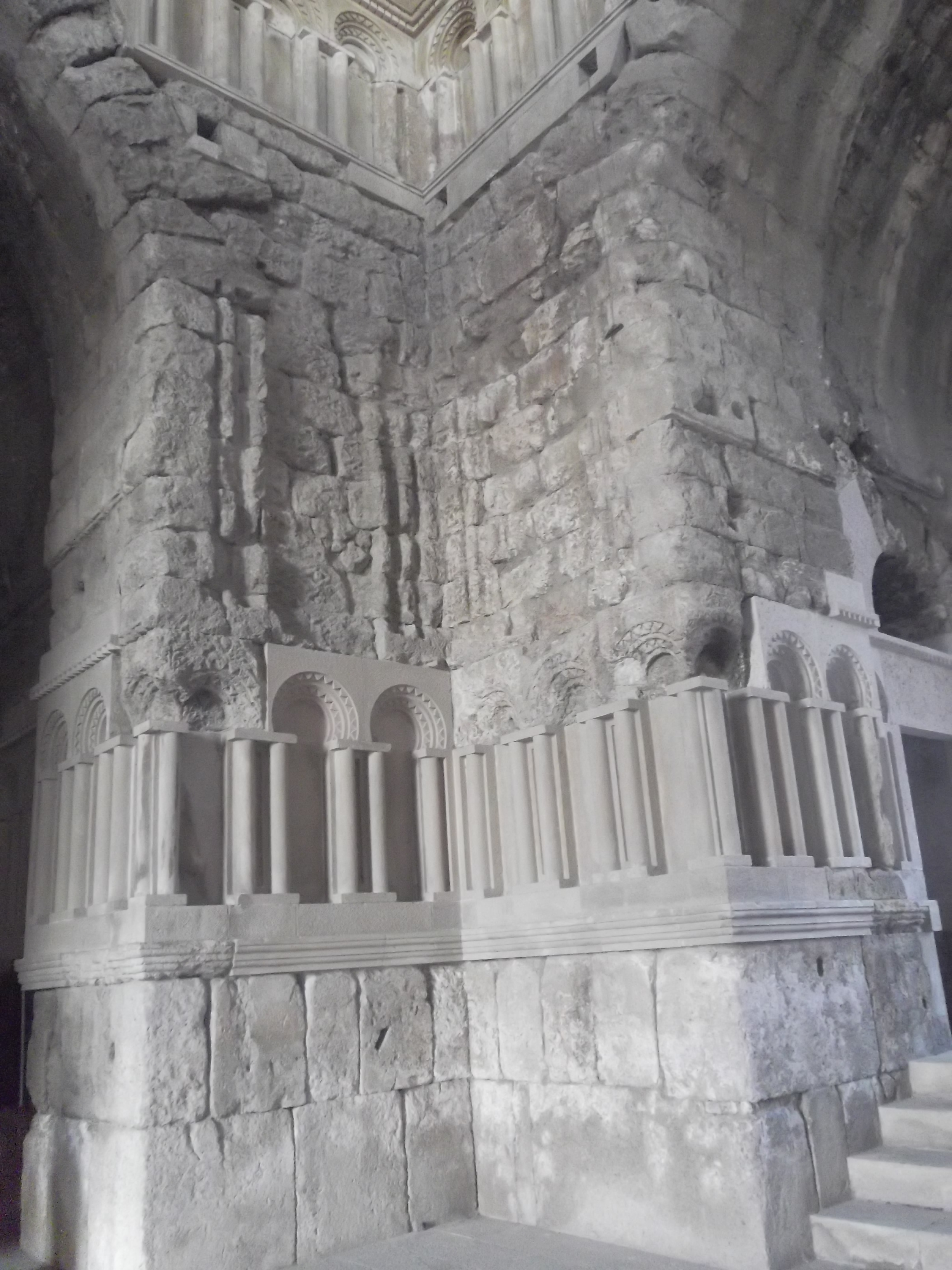 القصر الأموي من الداخل